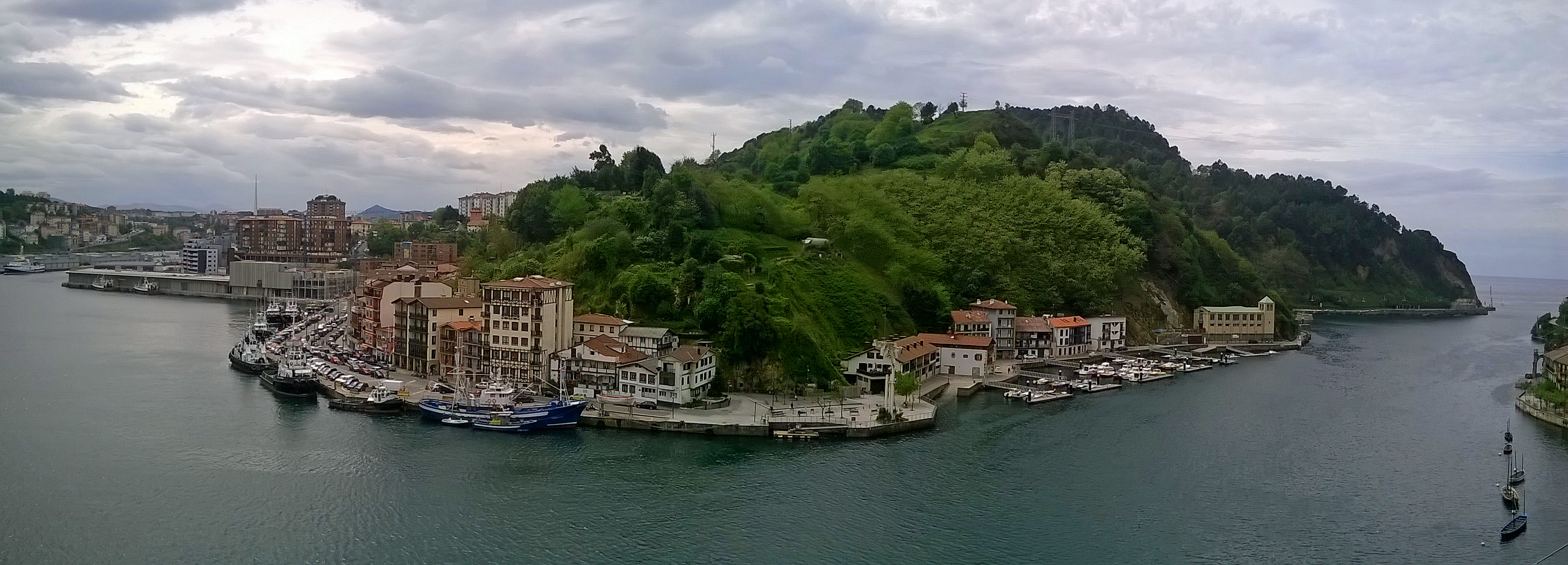 Pasai San Pedro, Gipuzkoa, Basque Country